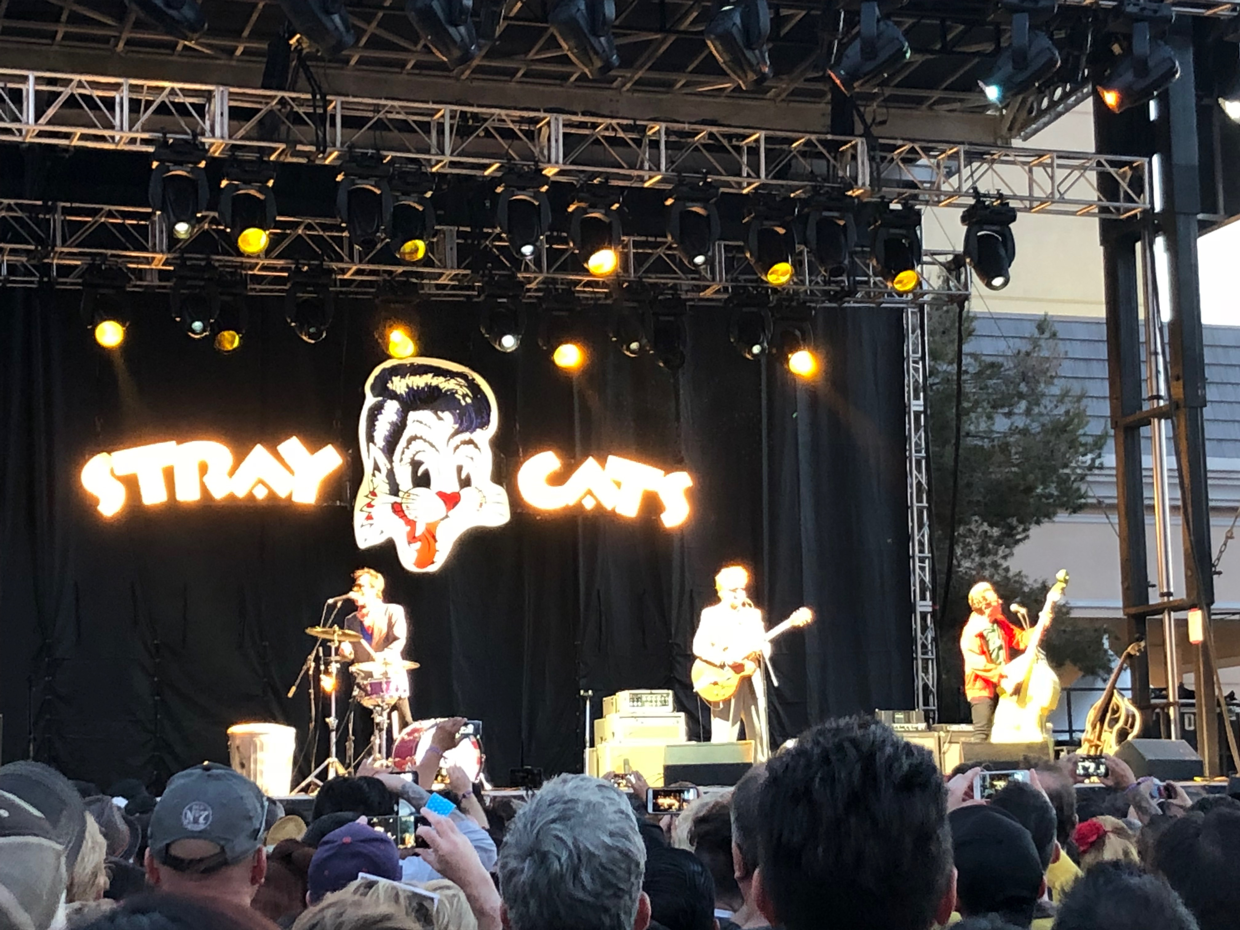 Stray Cats live concert at Viva Las Vegas 2018